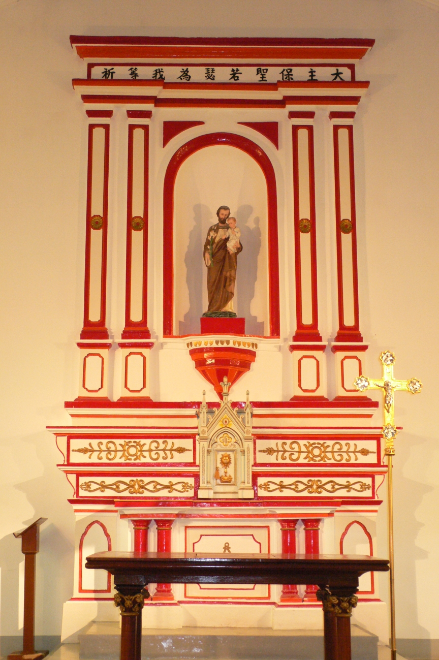 The Altar of St Joseph's Chapel in Yim Tin Tsai, Hong Kong